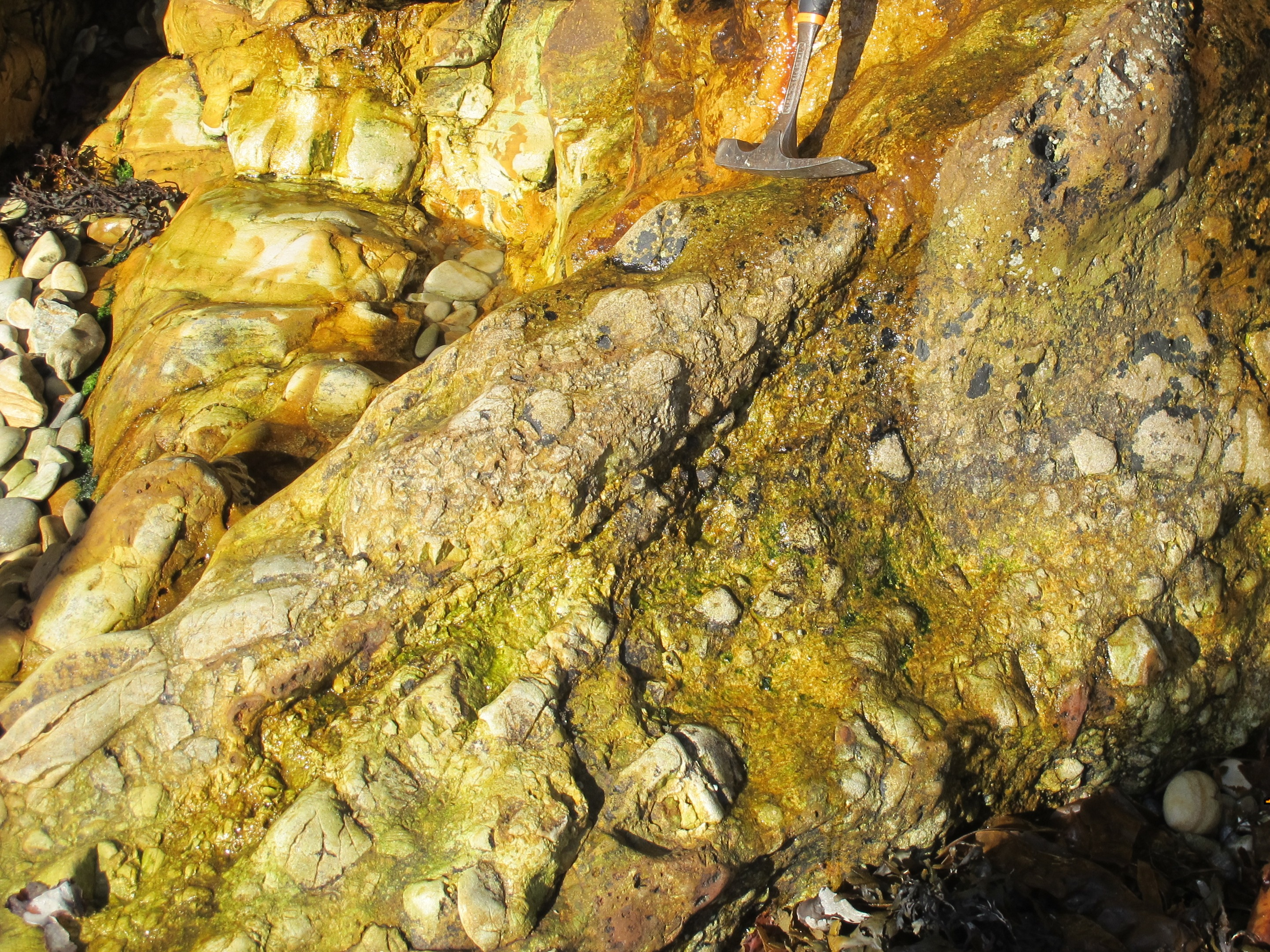 Breccia pipe (tuffisite dyke) cutting Eday Sandstone at Orphir Bay, Mainland Orkney